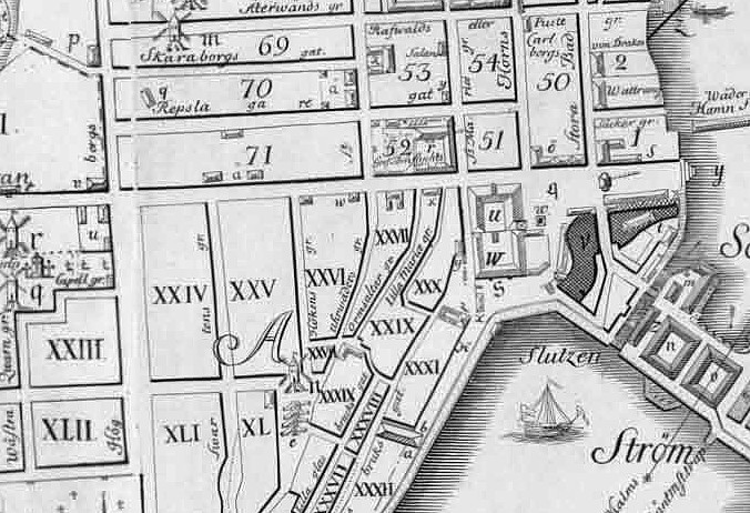 Part of Petrus Tillaeus' map of Stockholm, 1733. North is to the right.